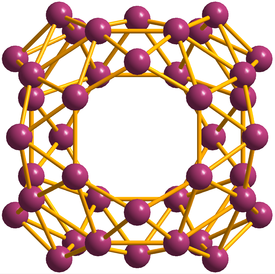 Neutral D2d B40 borosphene, based on atomic coordinates from